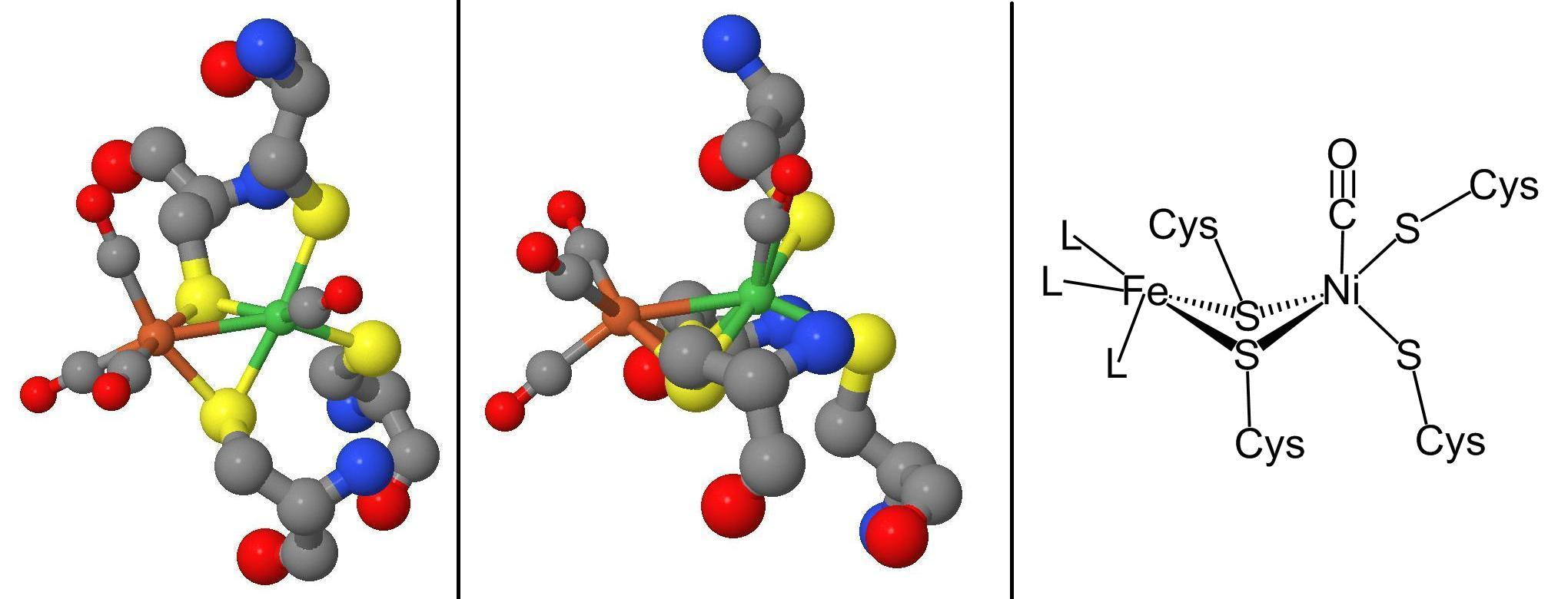 NiFe hydrogenase from Desulfovibrio vulgaris Miyazaki F.